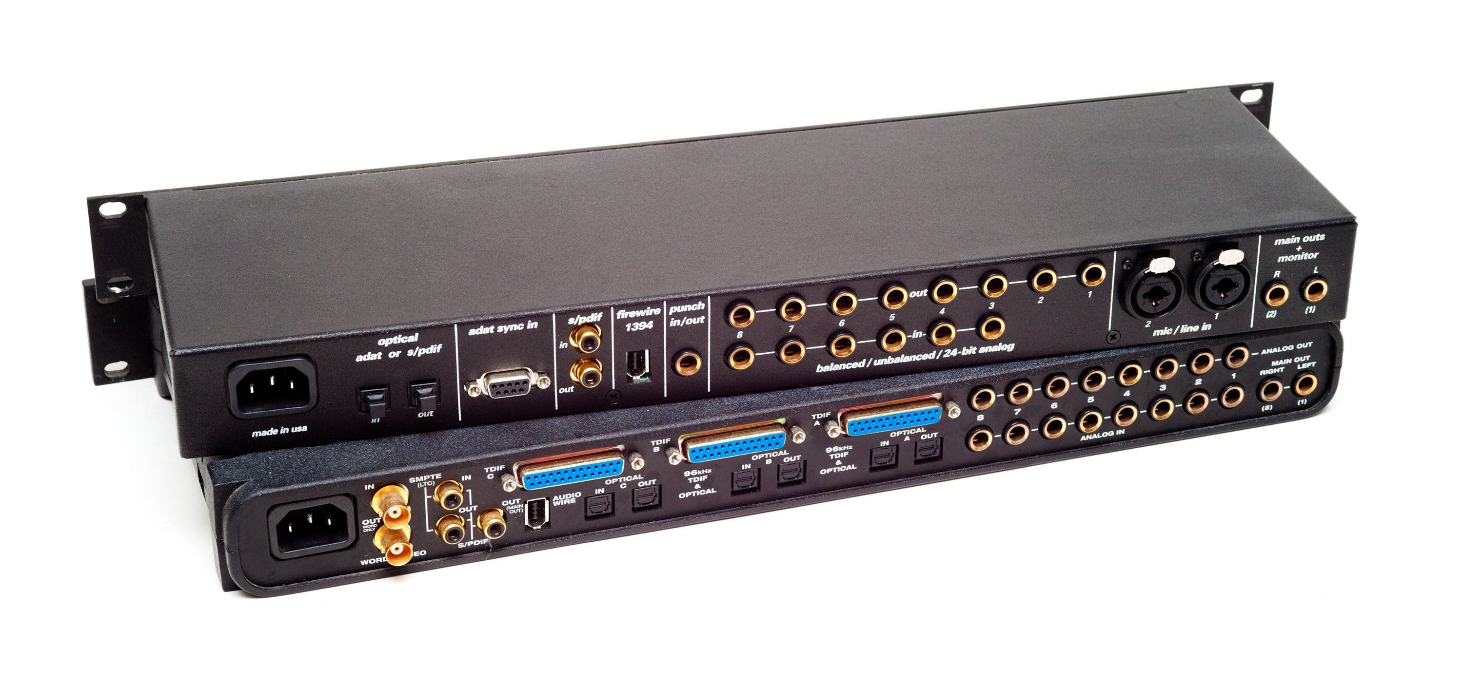 A pair of MOTU audio interfaces (rear)